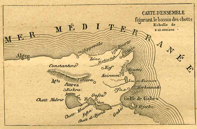 Old_map_-_tunisian_and_algerian_chotts basins